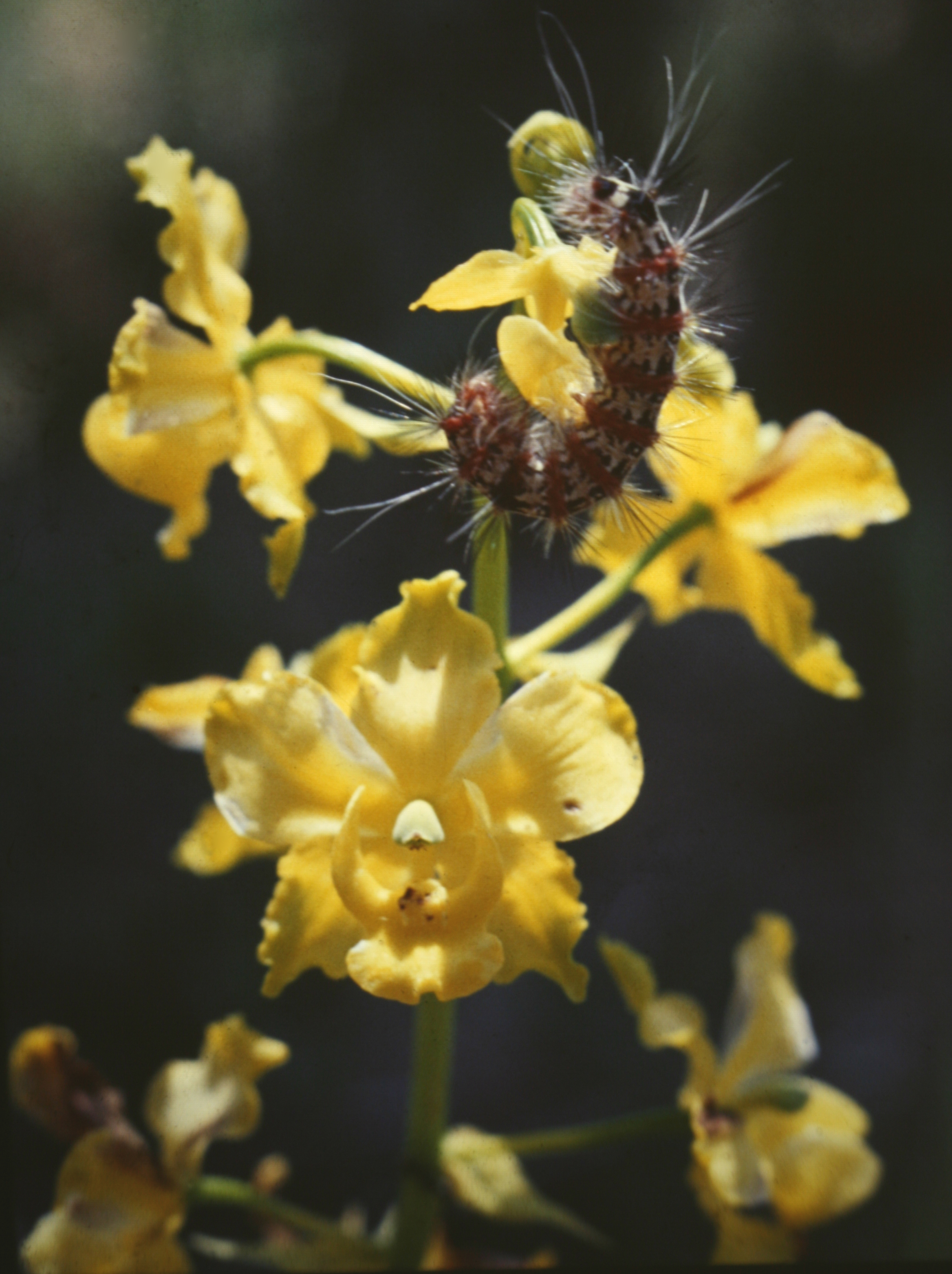 Cyrtopodium cristatum with unidentified caterpillar. Boven Coesewijne nature reserve, Suriname.